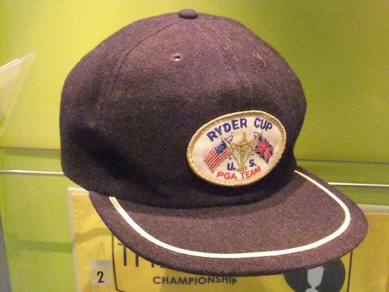 Lee Trevino's cap from the 1969 Ryder Cup played at Royal Birkdale Golf Club. Photographed at the Museum of Liverpool, England.